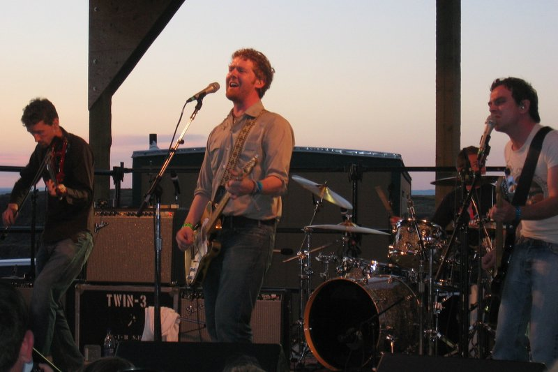 The Frames. These Irish lads are used to selling out large stadiums in their homeland. Sasquatch Music Festival @ the Gorge, WAThe Frames, cont